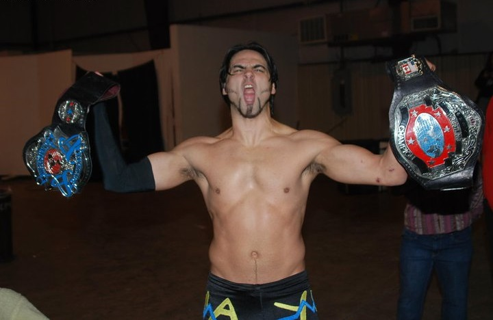 Kirby Mack after beating Stoney Hooker